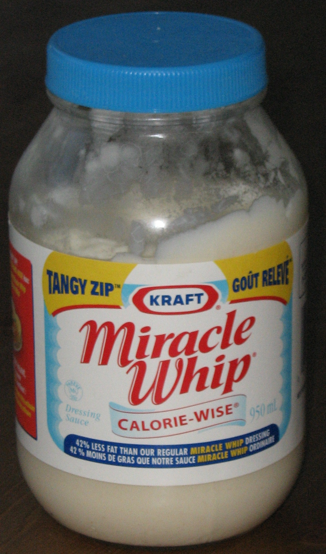 A jar of Miracle Whip